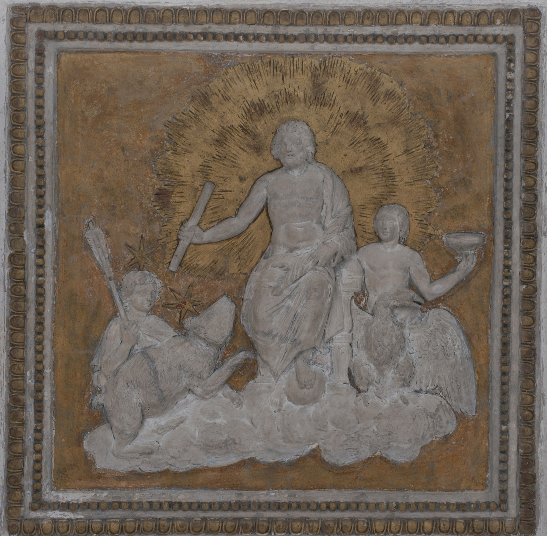 Ceiling